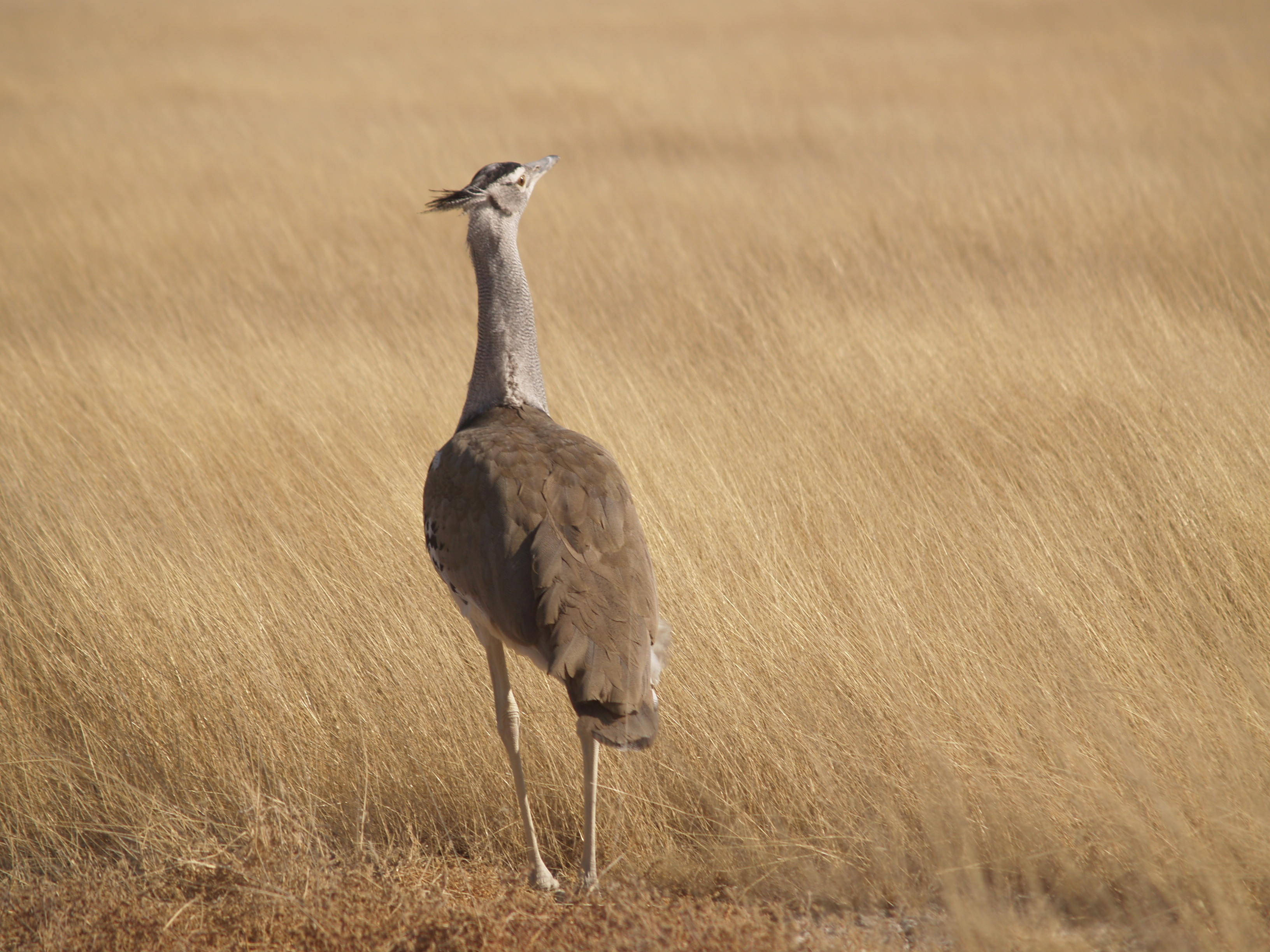 Kori Bustard Ardeotis kori in Etosha National Park, Namibia